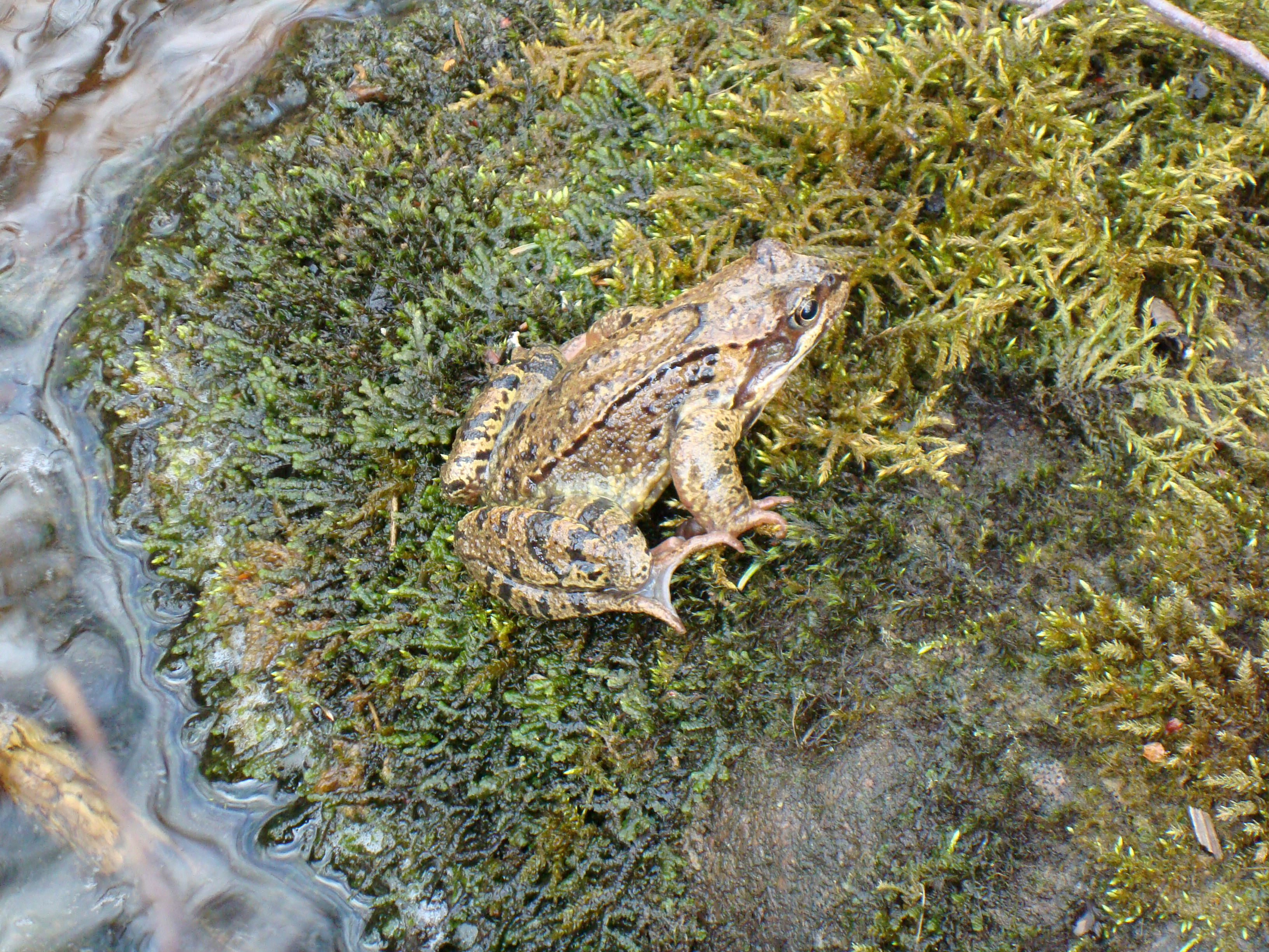 Moor Frog in Sweden